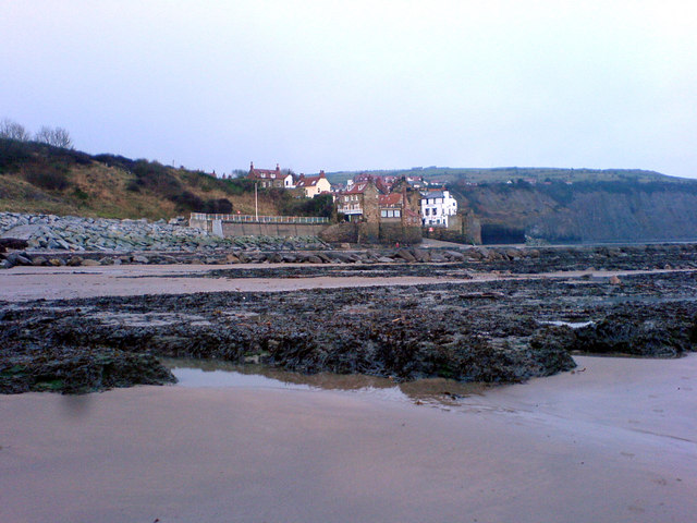 Robin Hood's Bay.